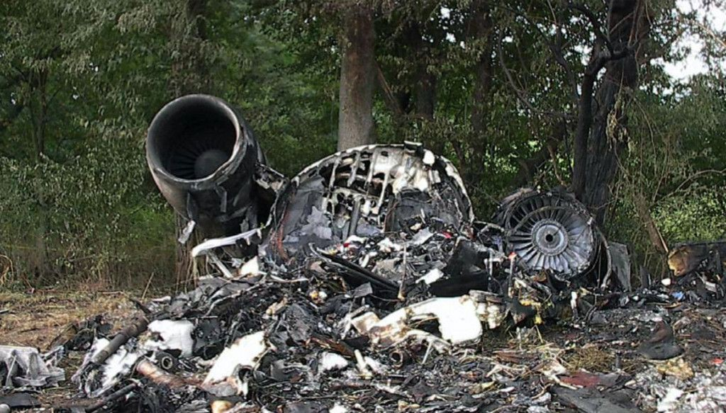 Crash site of Comair Flight 5191.